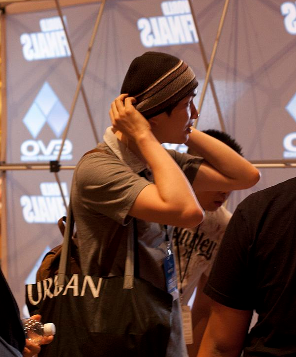 Crop of File:Infiltration in Las Vegas, 2012.jpg – Infiltration at Evo 2012.